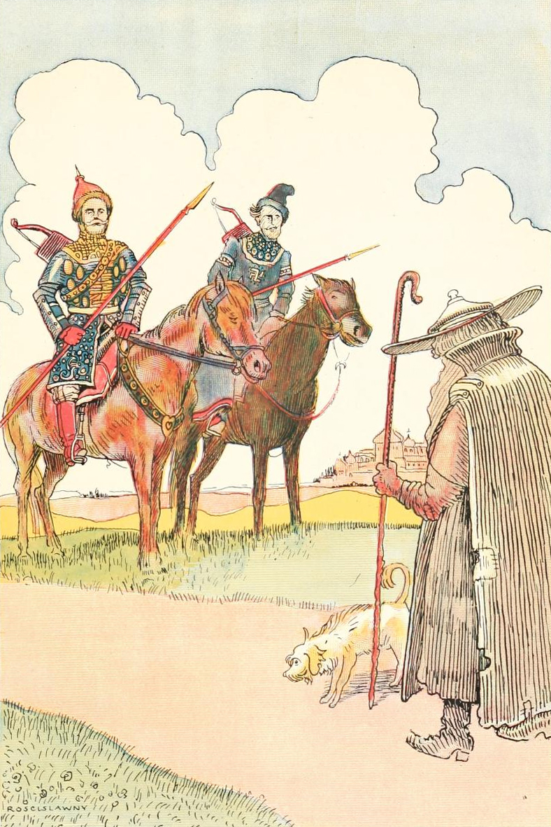 Image of DJVU p. 85 from A Russian Garland of Fairy Tales (1916) by Robert Steele. Images by R. de Rosciszewiski.